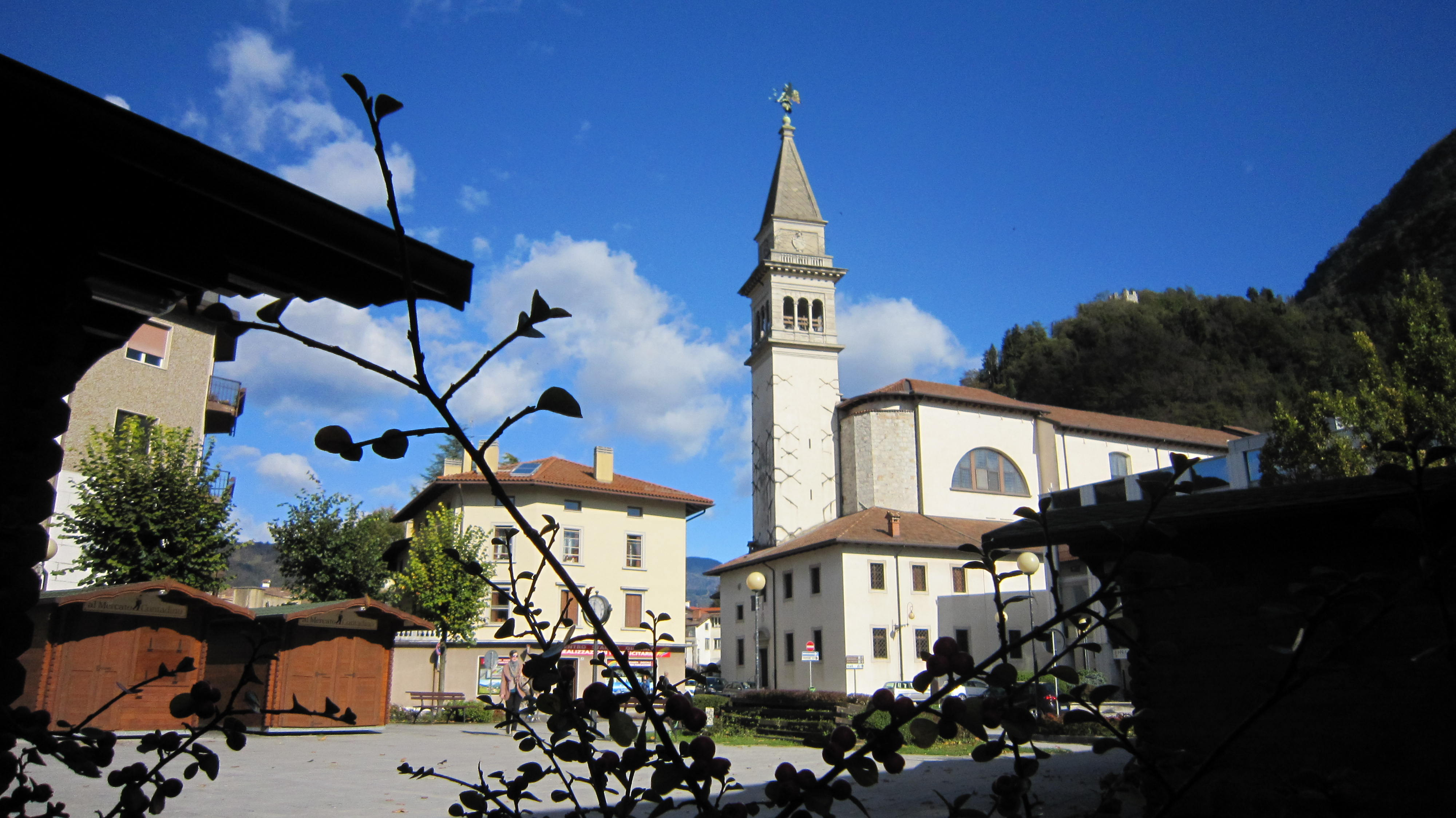 tolmezzo - duomo